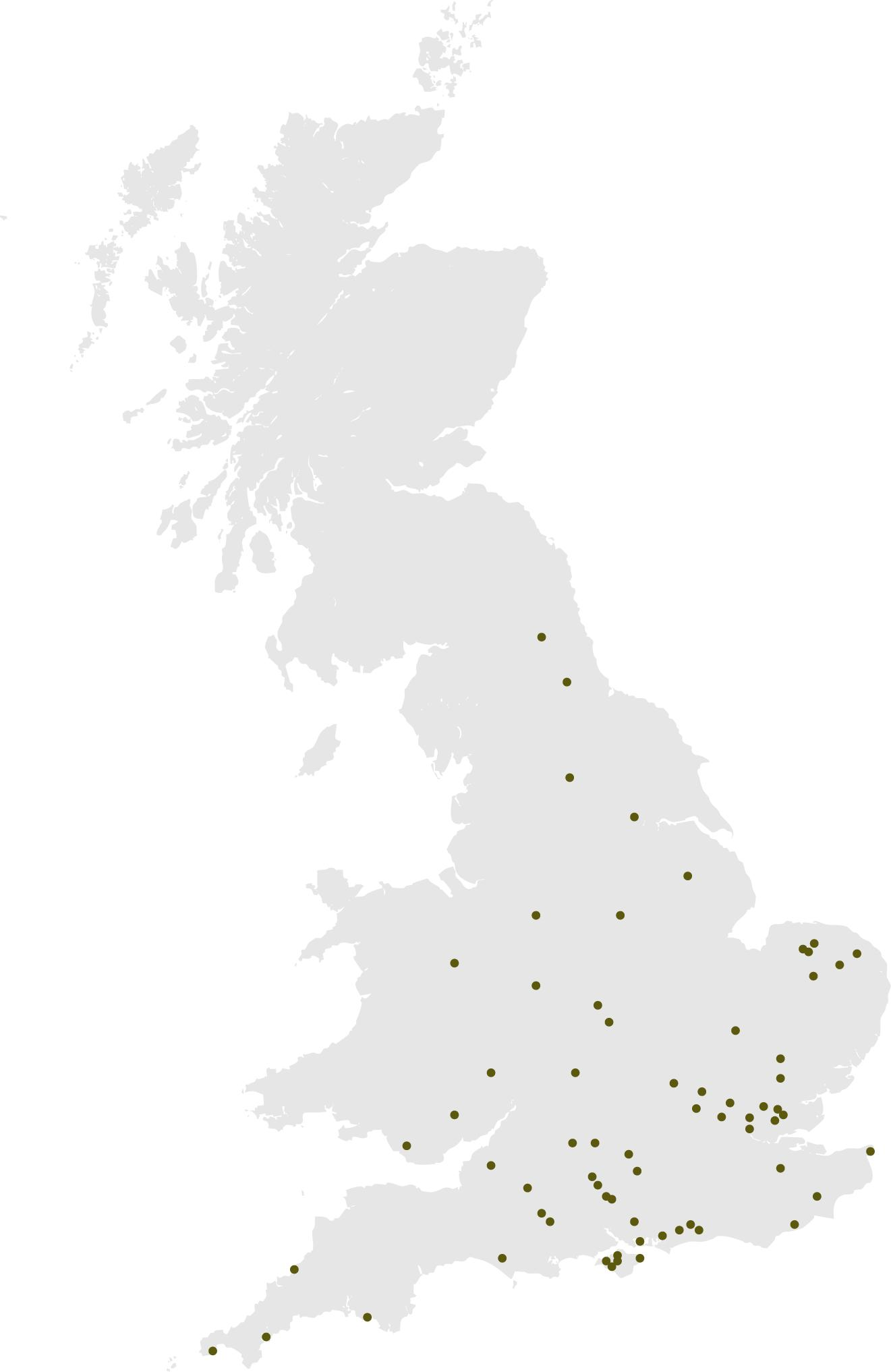 Bronze Age Treasure cases 2005 - 2006 This was added from the site called under the name portableantiquities. See source for details.